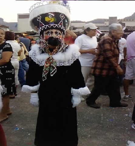 Brinco chinelo